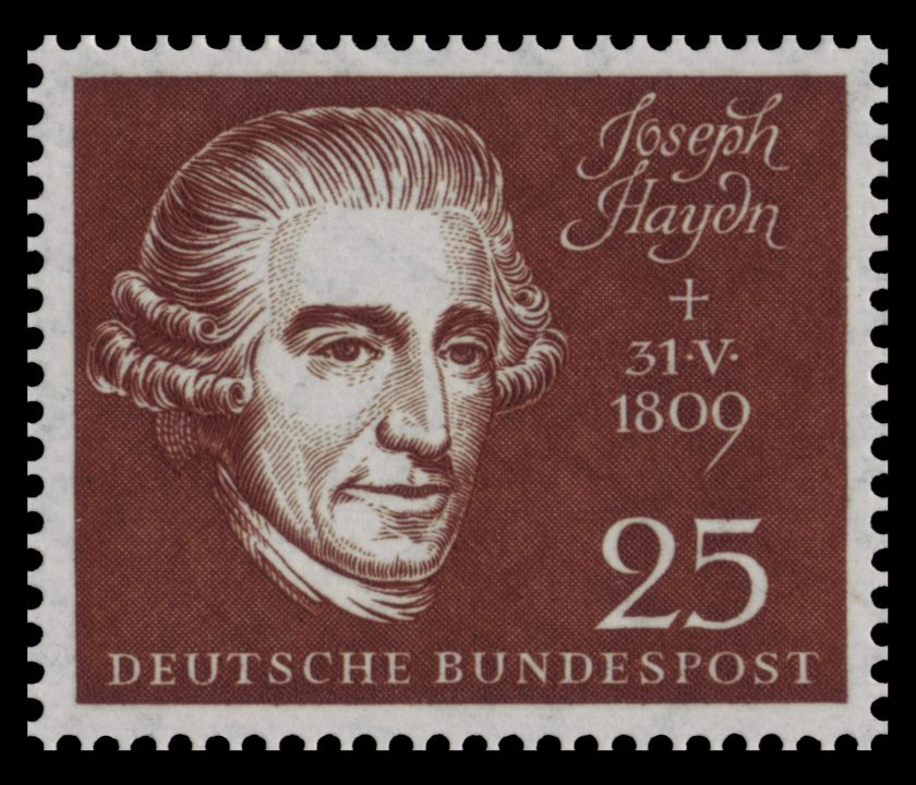 Induction of the Beethoven Hall in Bonn Graphics by Kern Ausgabepreis: 25 Pfennig First Day of Issue / Erstausgabetag: 8. September 1959 Michel-Katalog-Nr: 318